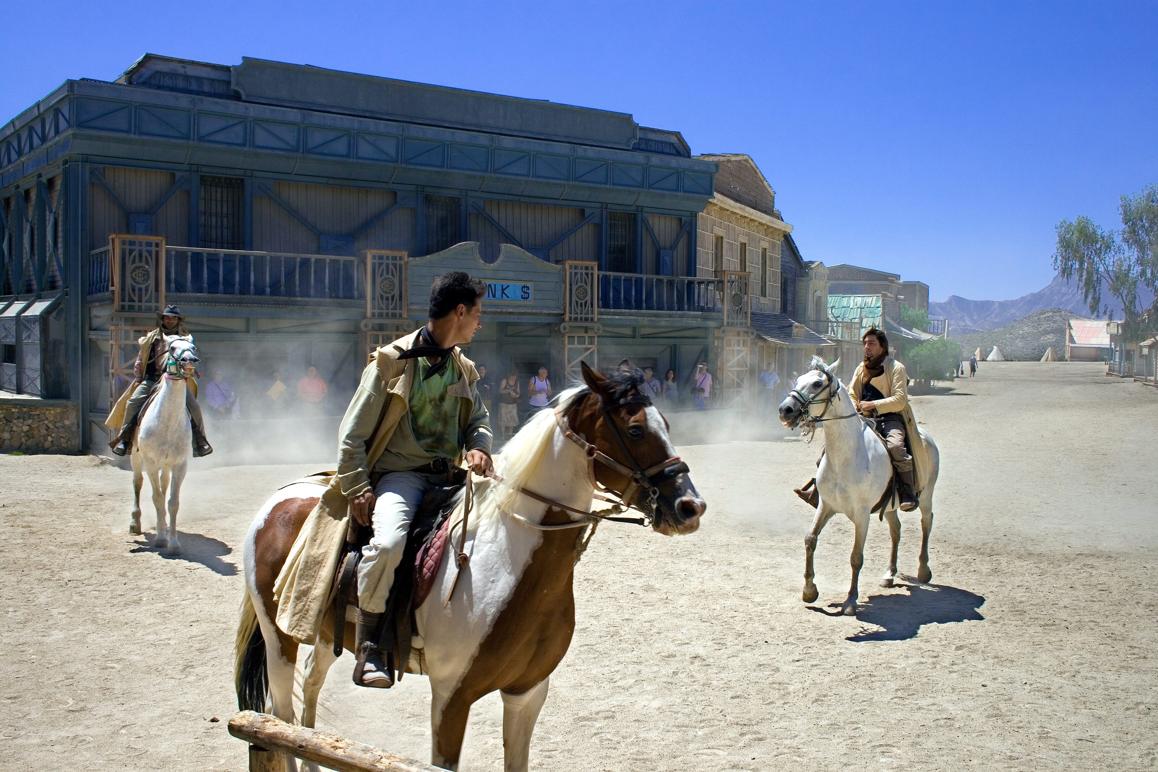 Cowboy actors mount their horses at Texas Hollywood